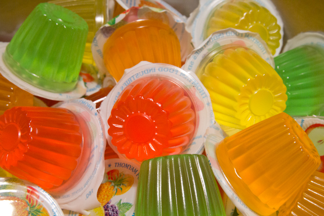 Thomyam Fruit Jelly December 20, 2011 2